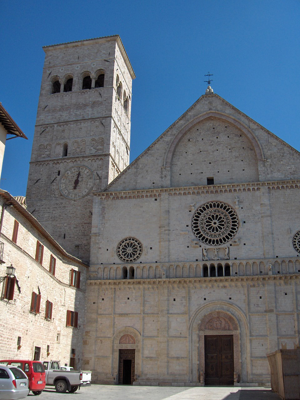 Façade of the Cathedral of San Rufino, Assisi, Italy